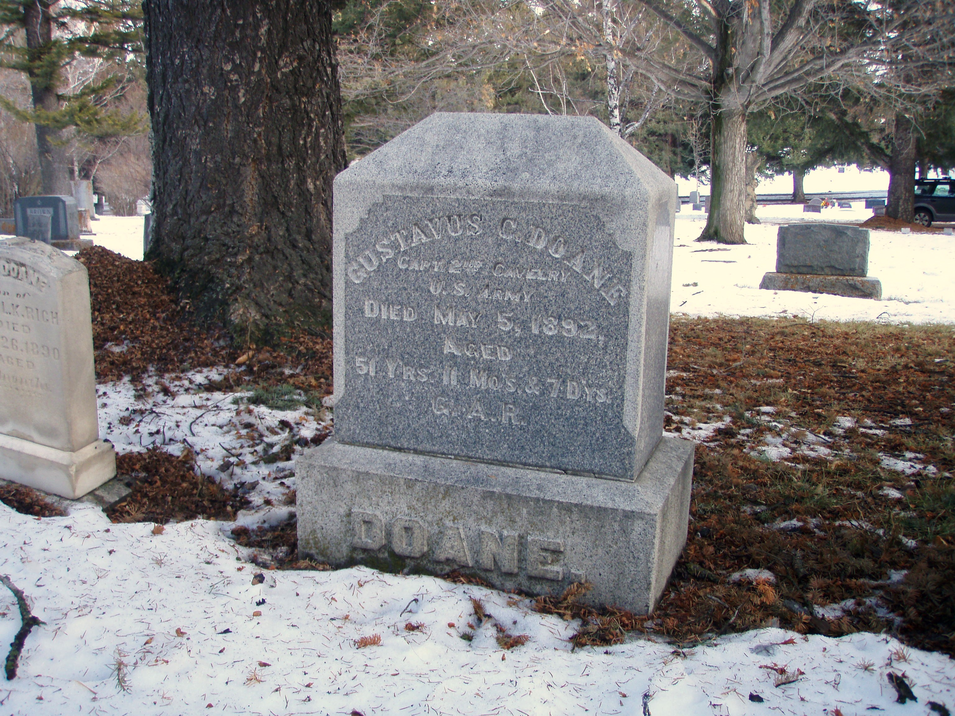 Gravestone of Gustavus C. Doane (1840-1892), Sunset Hills Cemetary, Bozeman, Montana